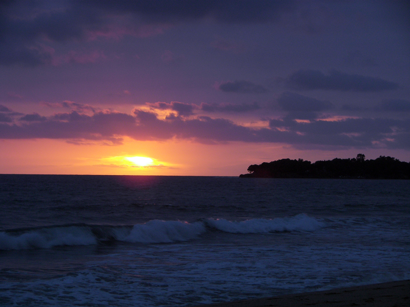 View of Licosa at the sunset, from Ogliastro Marina